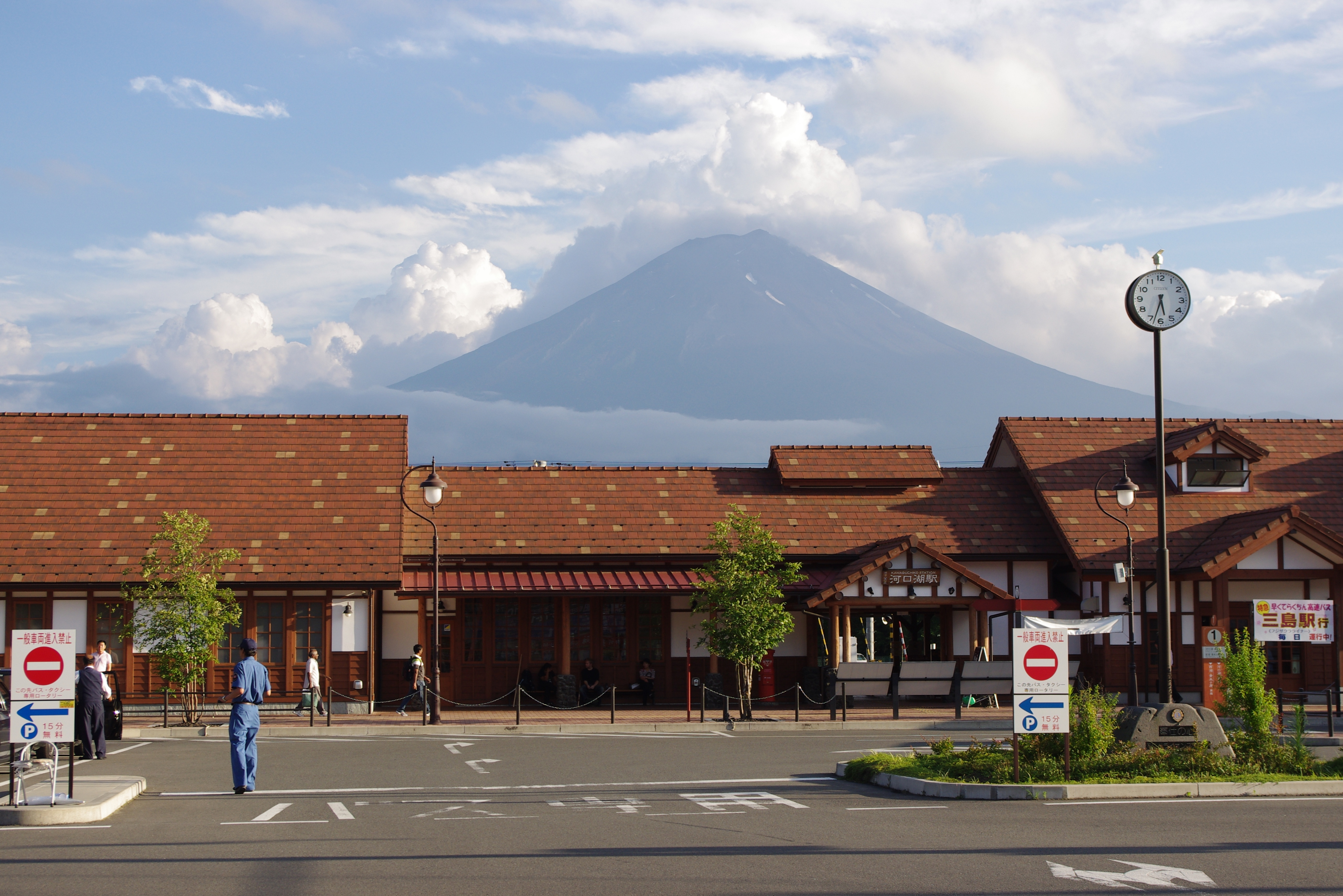 Kawaguchiko Station with Mount Fuji in the background